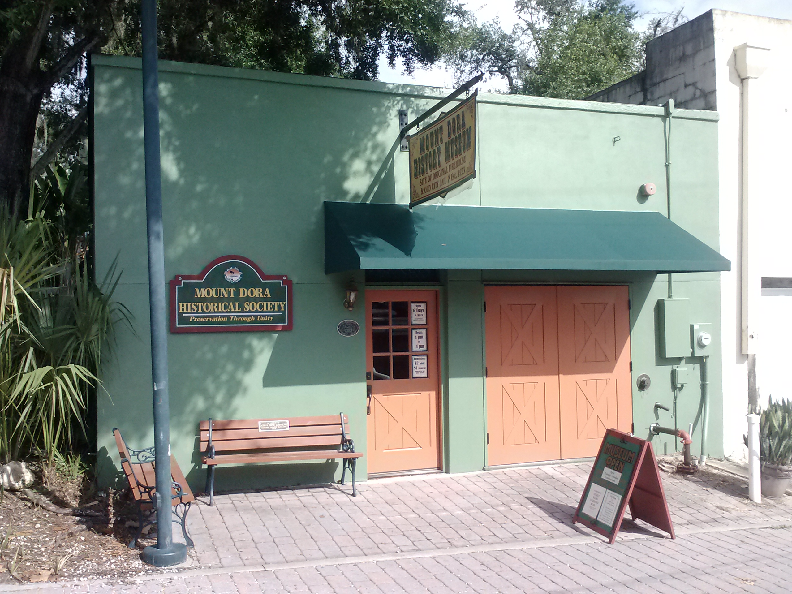 Exterior of Mount Dora History Museum